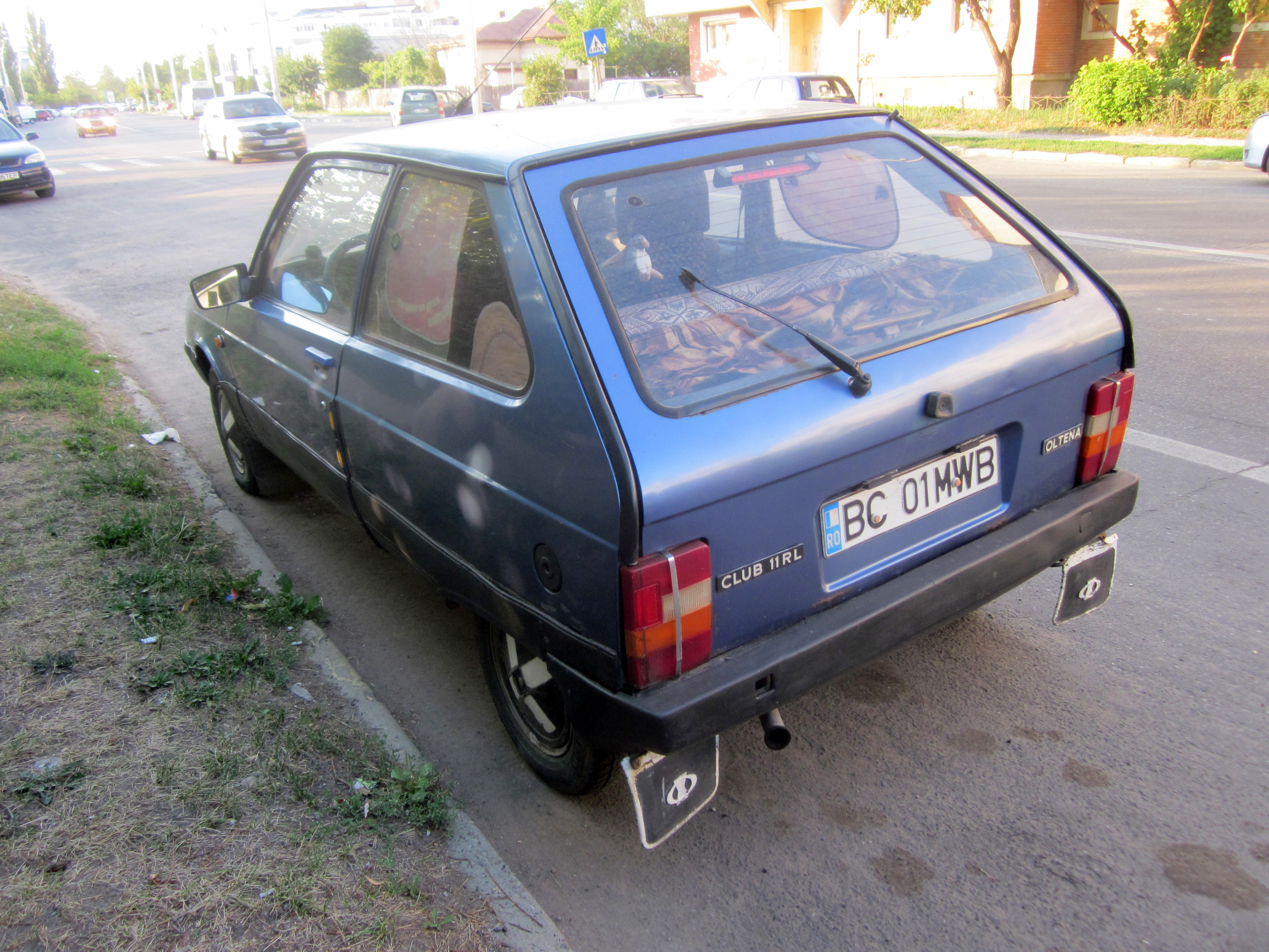 An Oltena Club 11 RL (former Oltcit) back